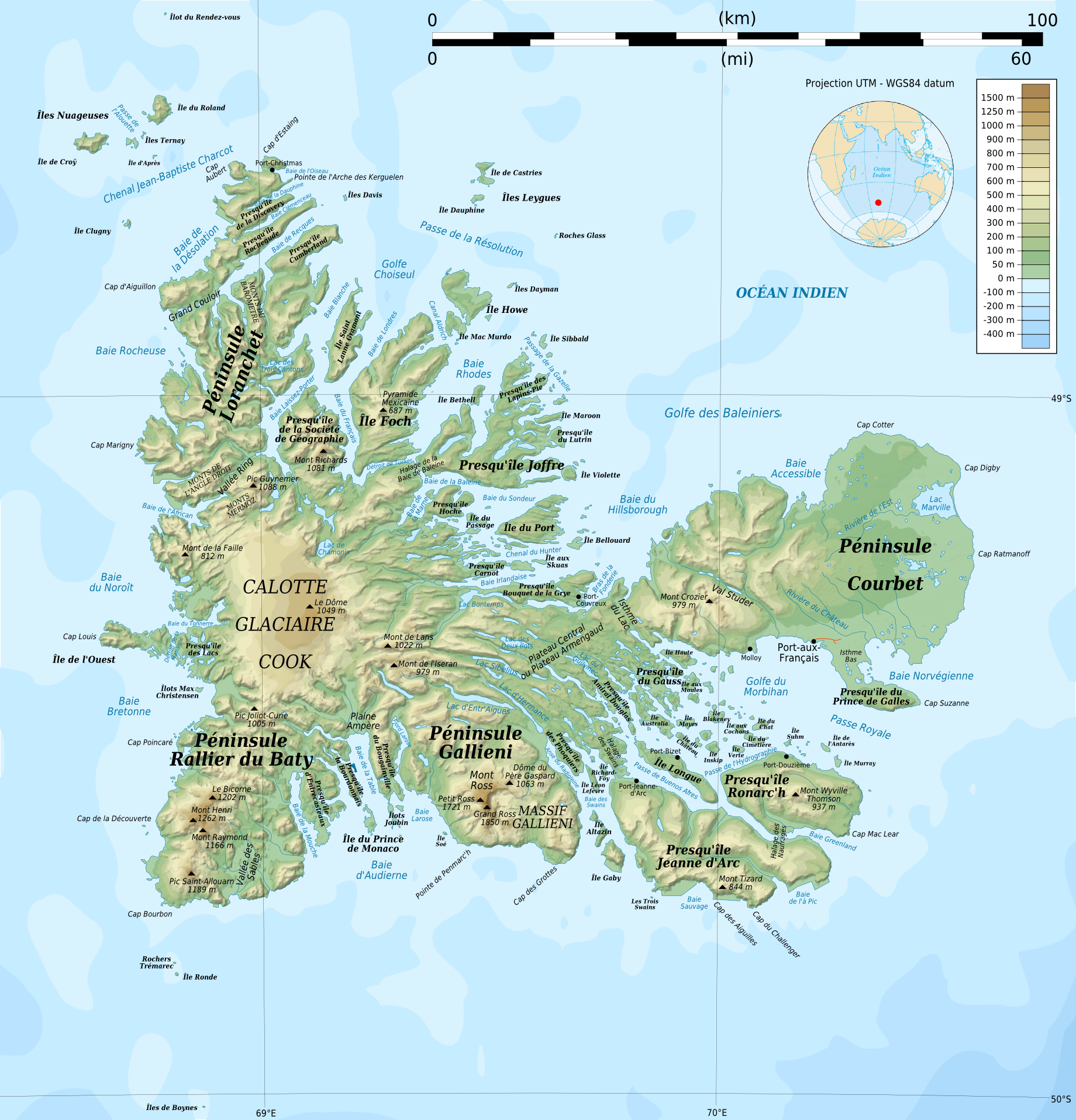 Topographic map of the Kerguelen Islands, Indian Ocean, France. Use the SVG version for translations and correcting mistakes.